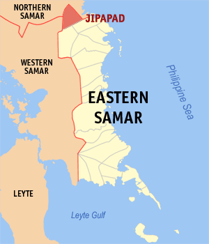 Map of Eastern Samar showing the location of Jipapad